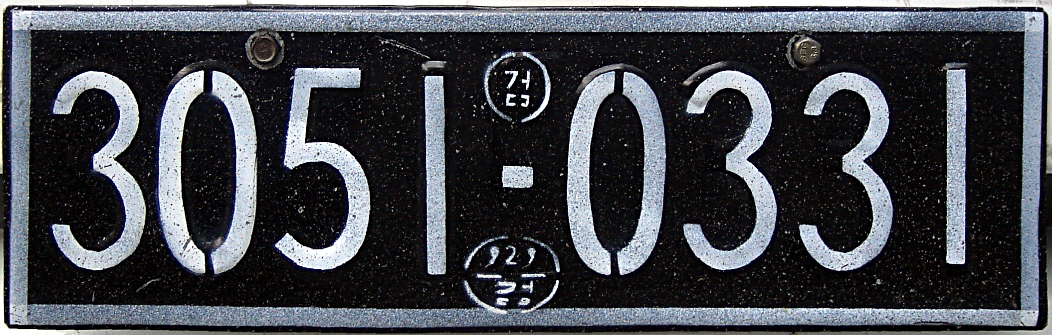 Military licence plates from North Korea, Photo taken near Pyongyang, North Korea